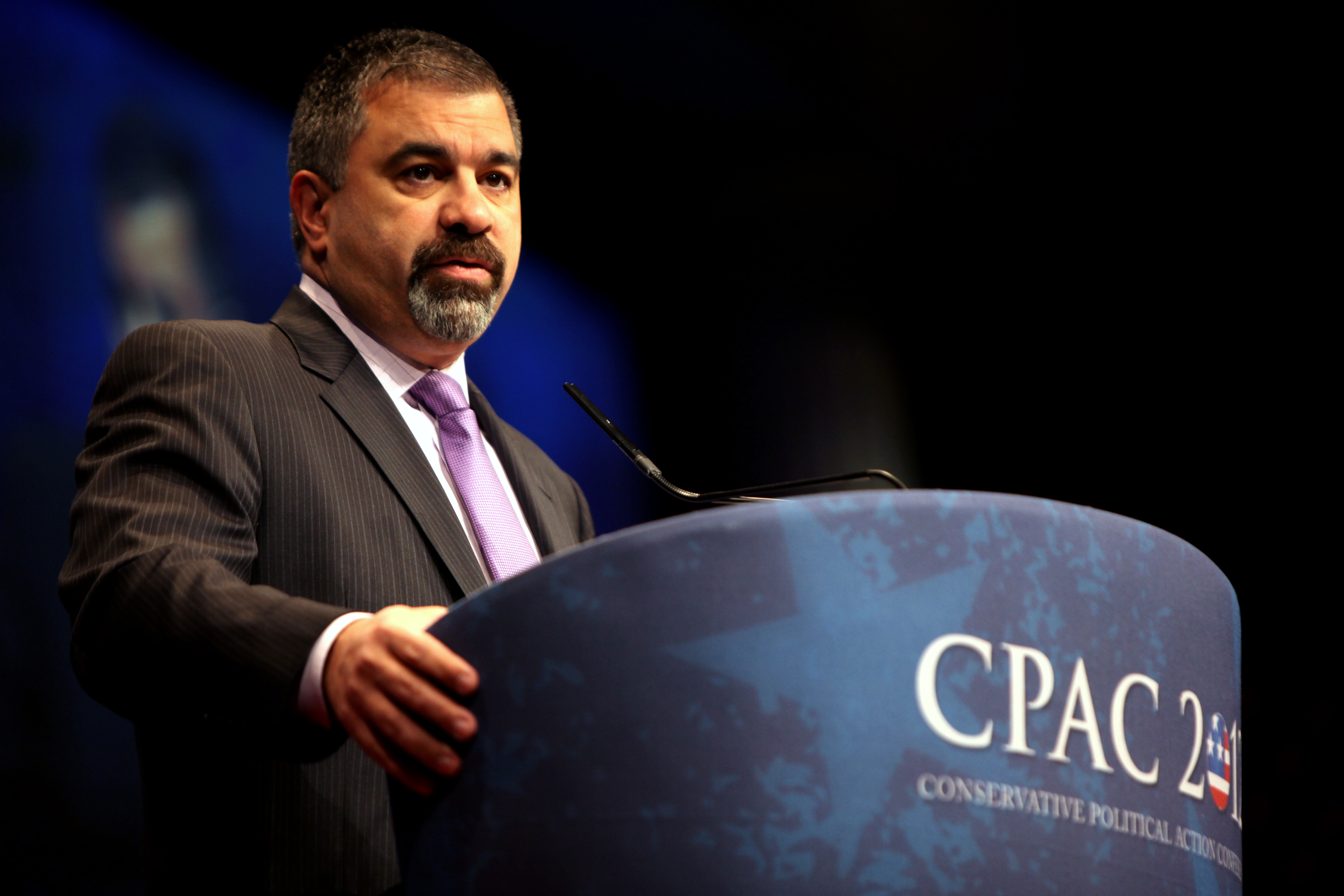 David Bossie speaking at the 2012 CPAC in Washington, D.C.